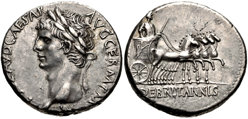 Claudius. AD 41-54. Cappadocia, Caesaraea-Eusebia. AR Didrachm (21mm, 7.48 g, 12h). Struck circa AD 43-48 TI • CLAVD • CAESAR • AVG • GERM • P M • TR • P • Laureate head left Claudius riding in triumphal quadriga right, holding reins and scepter; DE BRITANNIS in exergue. RPC 3625; Sydenham, Caesarea 55; RIC I 122. Near EF, toned. Rare. The didrachm was introduced during the reign of Claudius. The reverse type portrays a powerful piece of political propaganda; namely, Claudius returning triumphantly from Britain.